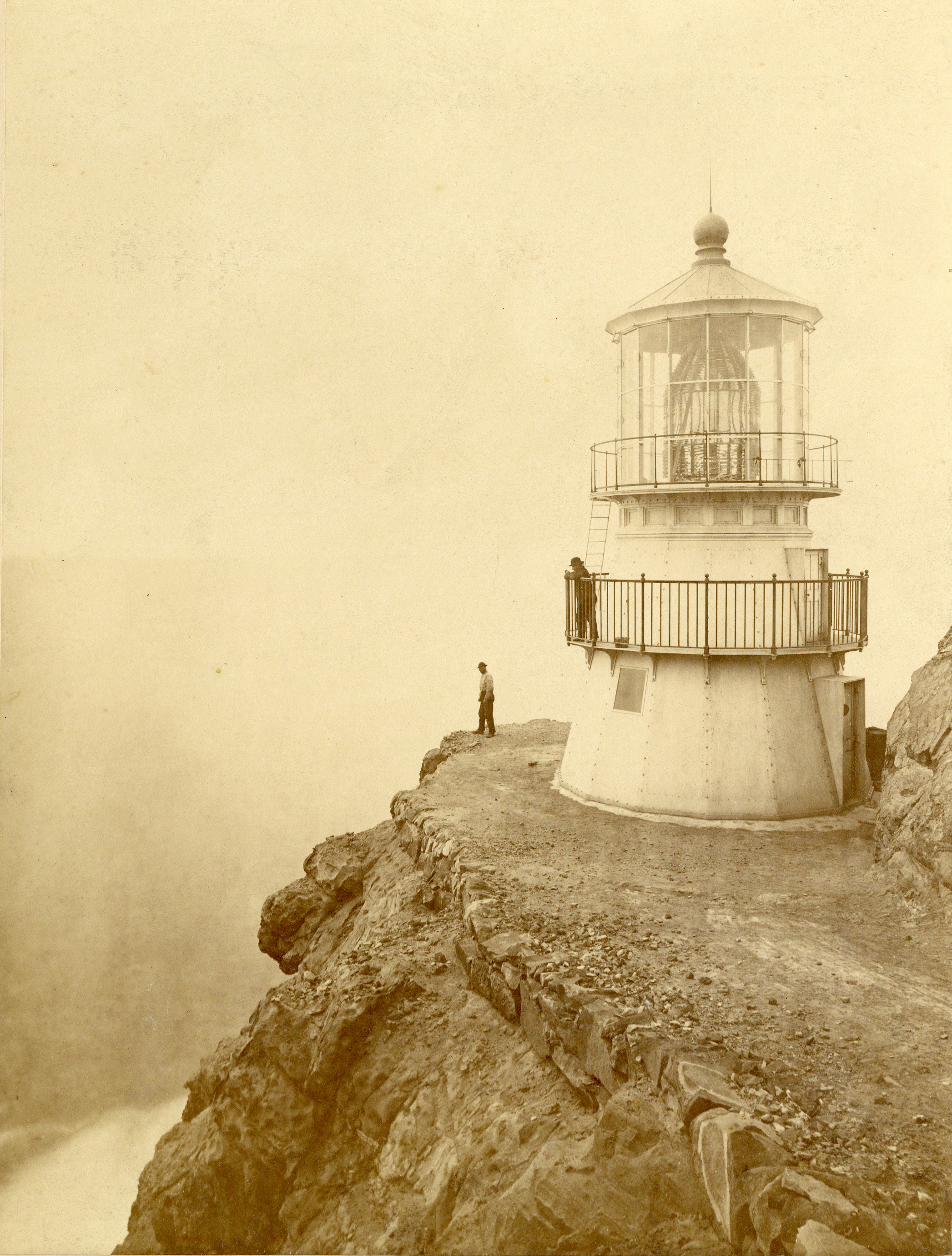 Eadweard Muybridge: First-Order Light-house at Punta de los Reyes, Seacoast of California, 296 Feet Above Sea (4136)